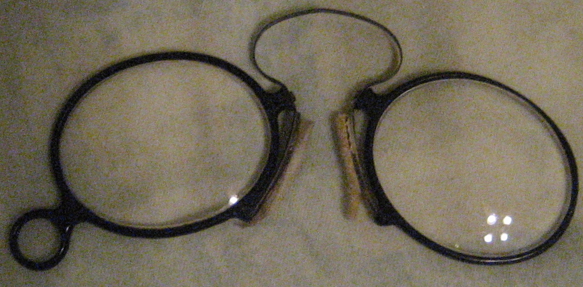 A pair of "pince-nez" style eyeglasses. Note the spring at bridge, felt where glasses hold nose, and loop on one end for string or light chain to be attached to.